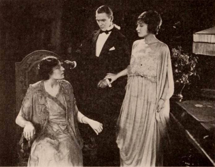 Still from the American drama film The Sporting Duchess (1920) with Alice Joyce, the other actors are not identified, on page 47 of the February 7, 1920 Exhibitors Herald.